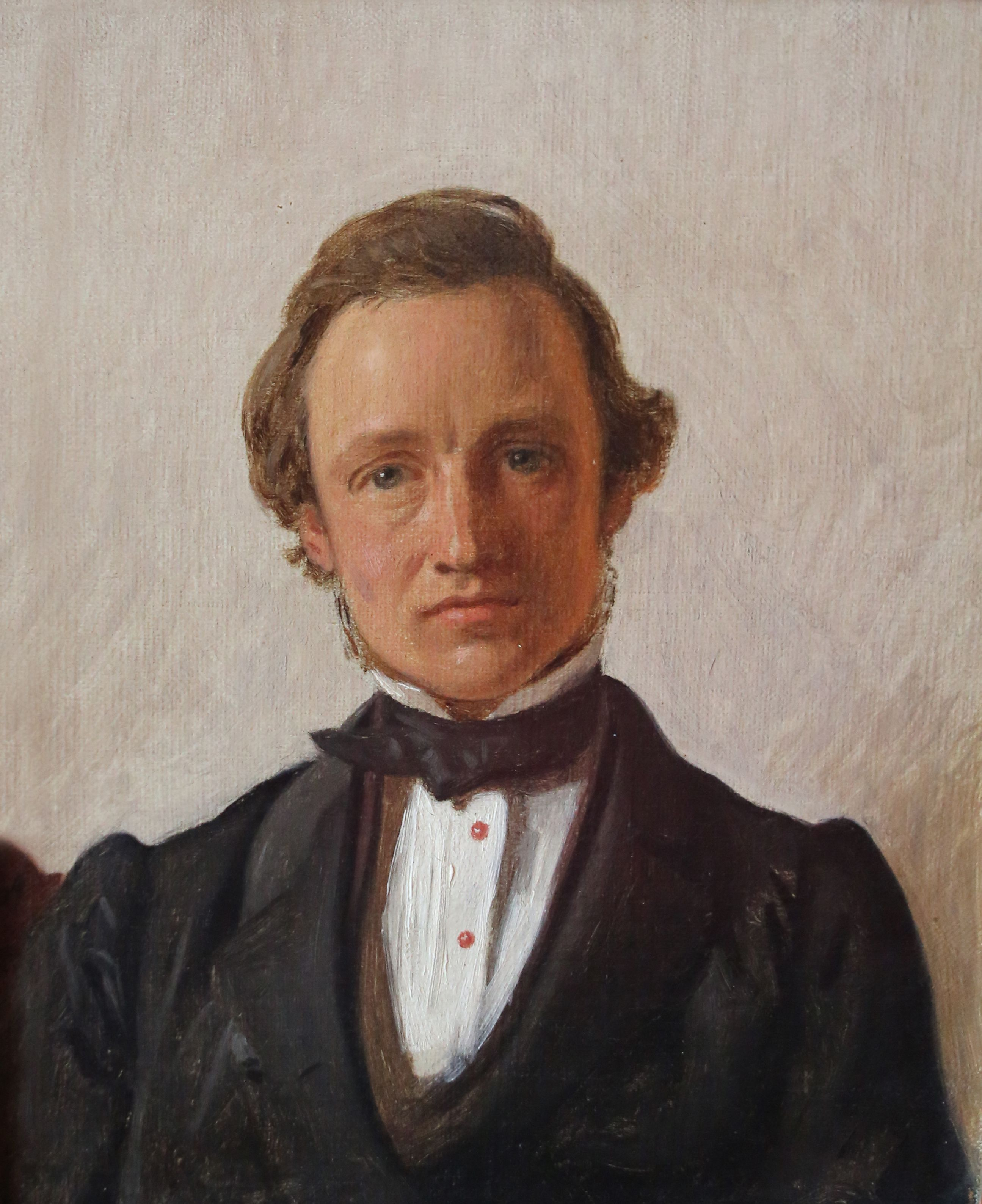 Gotfred Rode, by Constantin Hansen